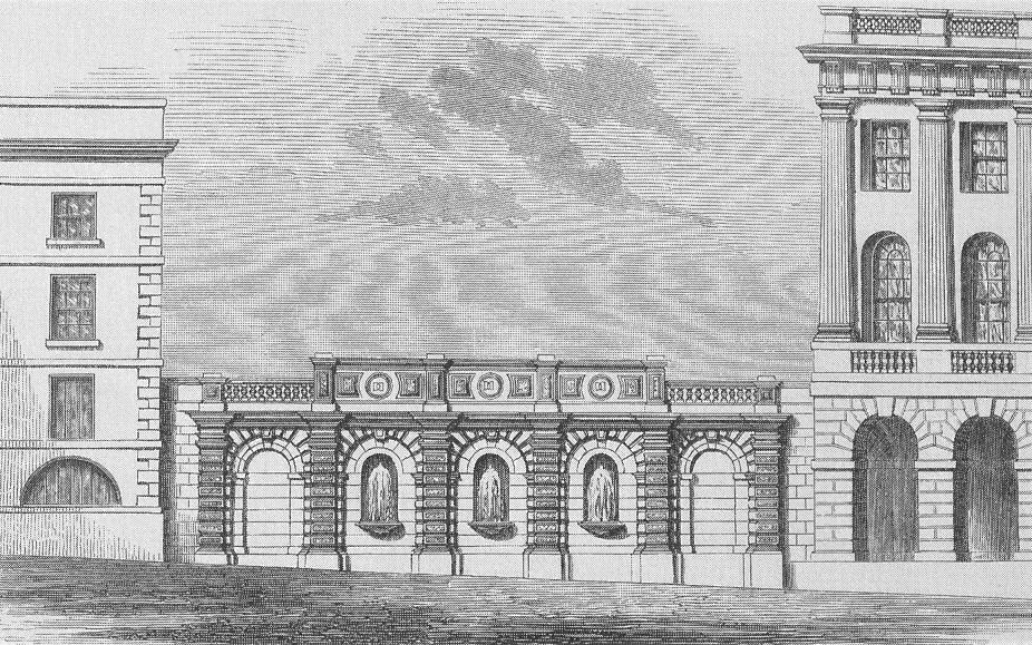 Buxton Natural Mineral Baths by Henry Currey 1852